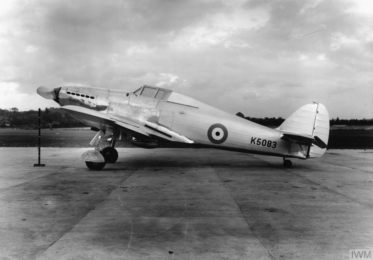 K5083, the prototype Hawker Hurricane at Brooklands prior to its maiden flight. Construction of the first prototype, K5083, began in August 1935 incorporating the PV-12 Merlin engine. The completed sections of the aircraft were taken to Brooklands, where Hawker had an assembly shed, and re-assembled on 23 October 1935. Ground testing and taxi trials took place over the following two weeks, and on 6 November 1935, the prototype took to the air for the first time, at the hands of Hawker's chief test pilot, Flight Lieutenant P.W.S. Bulman.